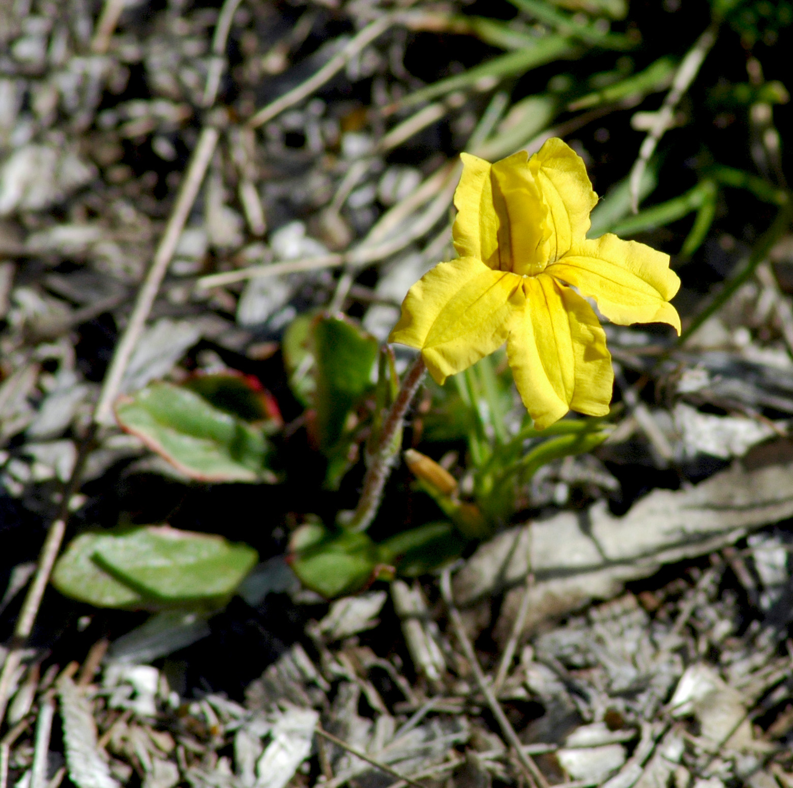 Spur Velleia, Velleia paradoxa. Southern Midlands of Tasmania.